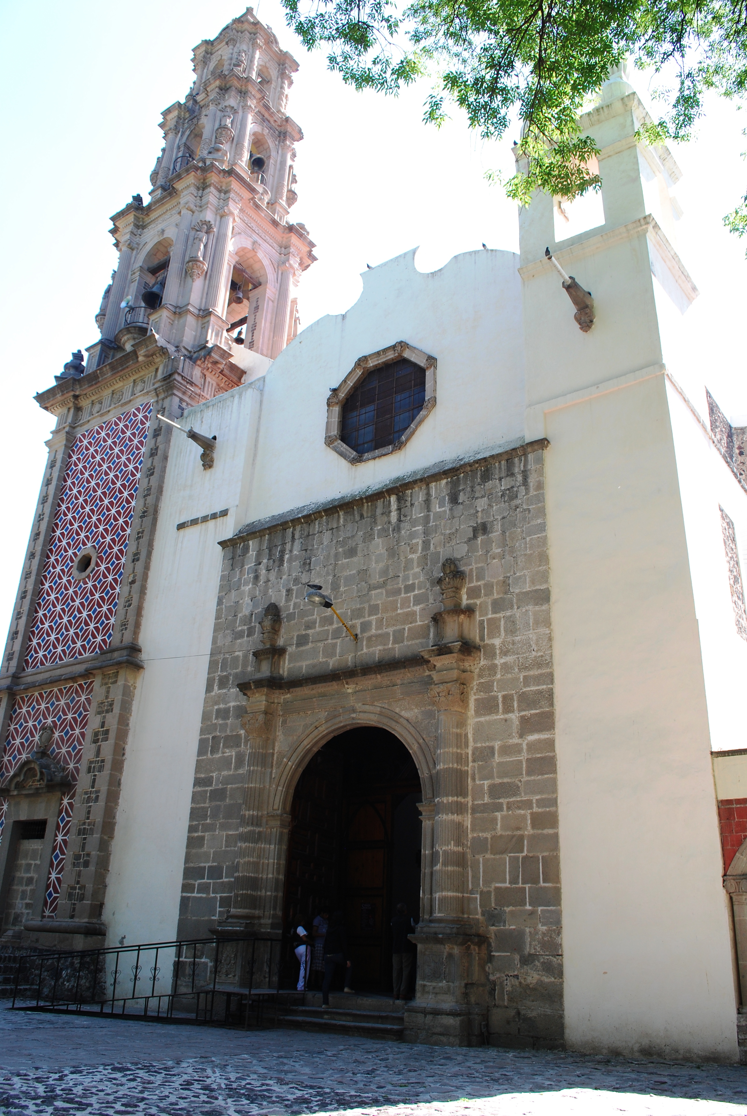 Facade of the church of San Juan Evangelista in Teotihuacan, Mexico State